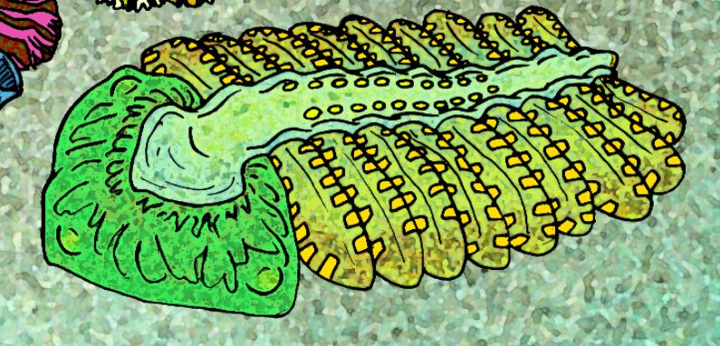 My reconstruction of Bomakellia kelleri as a proto-arthropod, of what is now the White Sea of Precambrian Russia, in comparison with Inaria (garlic-shaped organism), Anfesta (red disk), and Albumares (yellow veined disk). (C) Stanton F. Fink